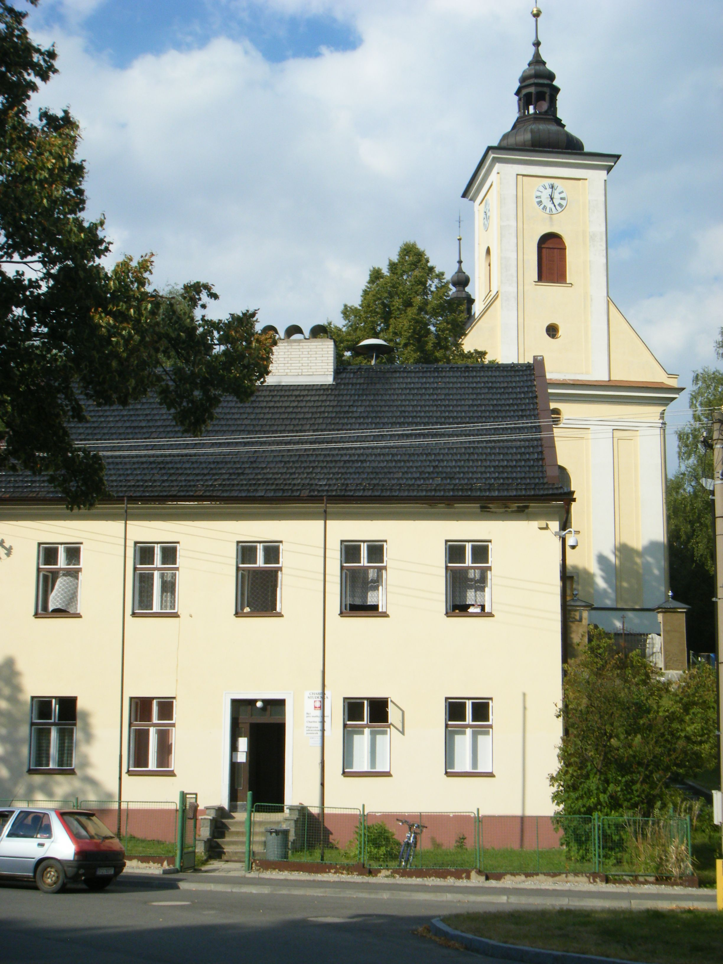 Studénka-Butovice, former vicarage and All Saints Church